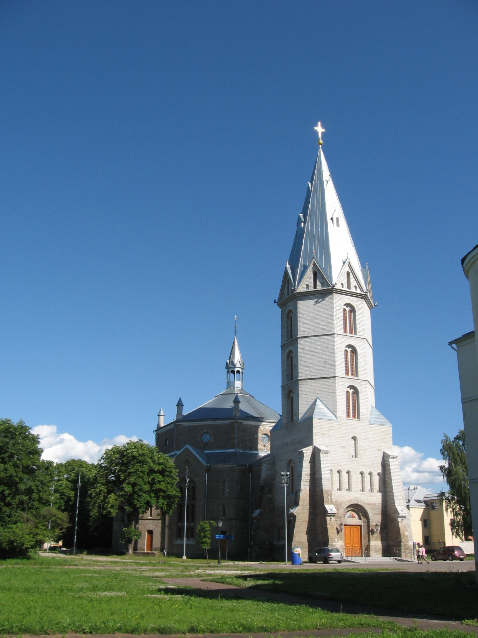 Narva Alexander's Cathedral